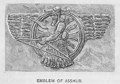 Emblem (possibly hypothetical) of the city of Asshur (Al Daiyara, northern Iraq) the original capital of Assyria, a country prior to 606 B. C. centered in the Tigris river valley.